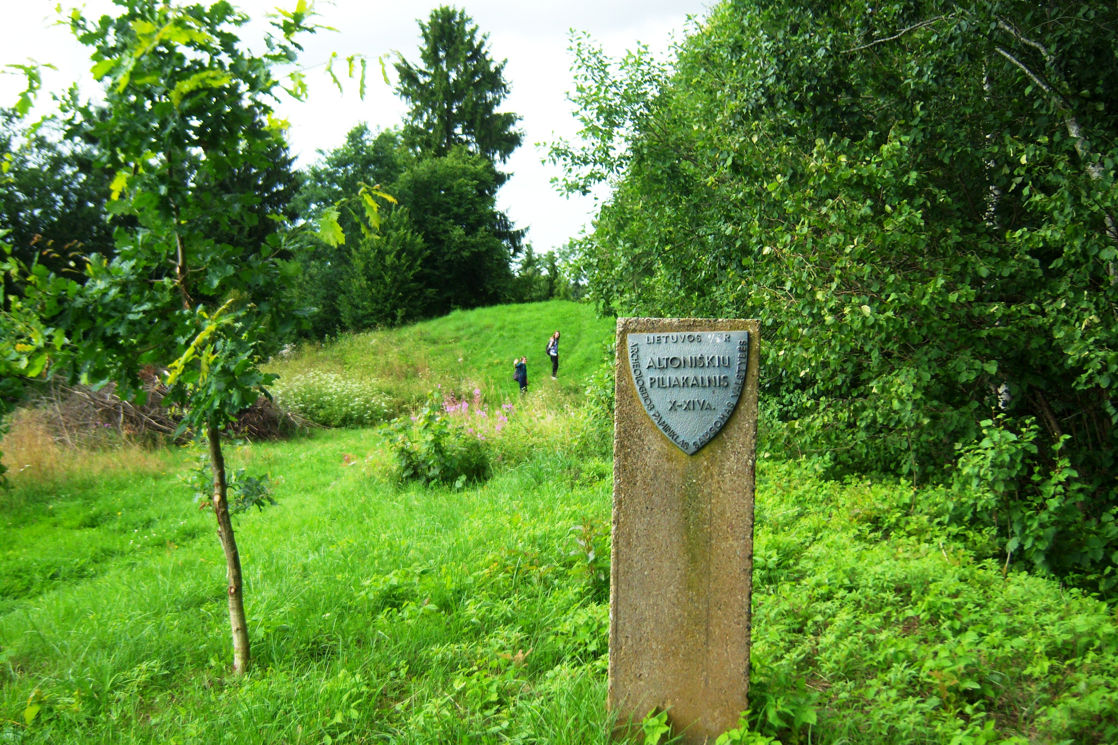 Altoniškiai hillfort, Kaunas district, Lithuania